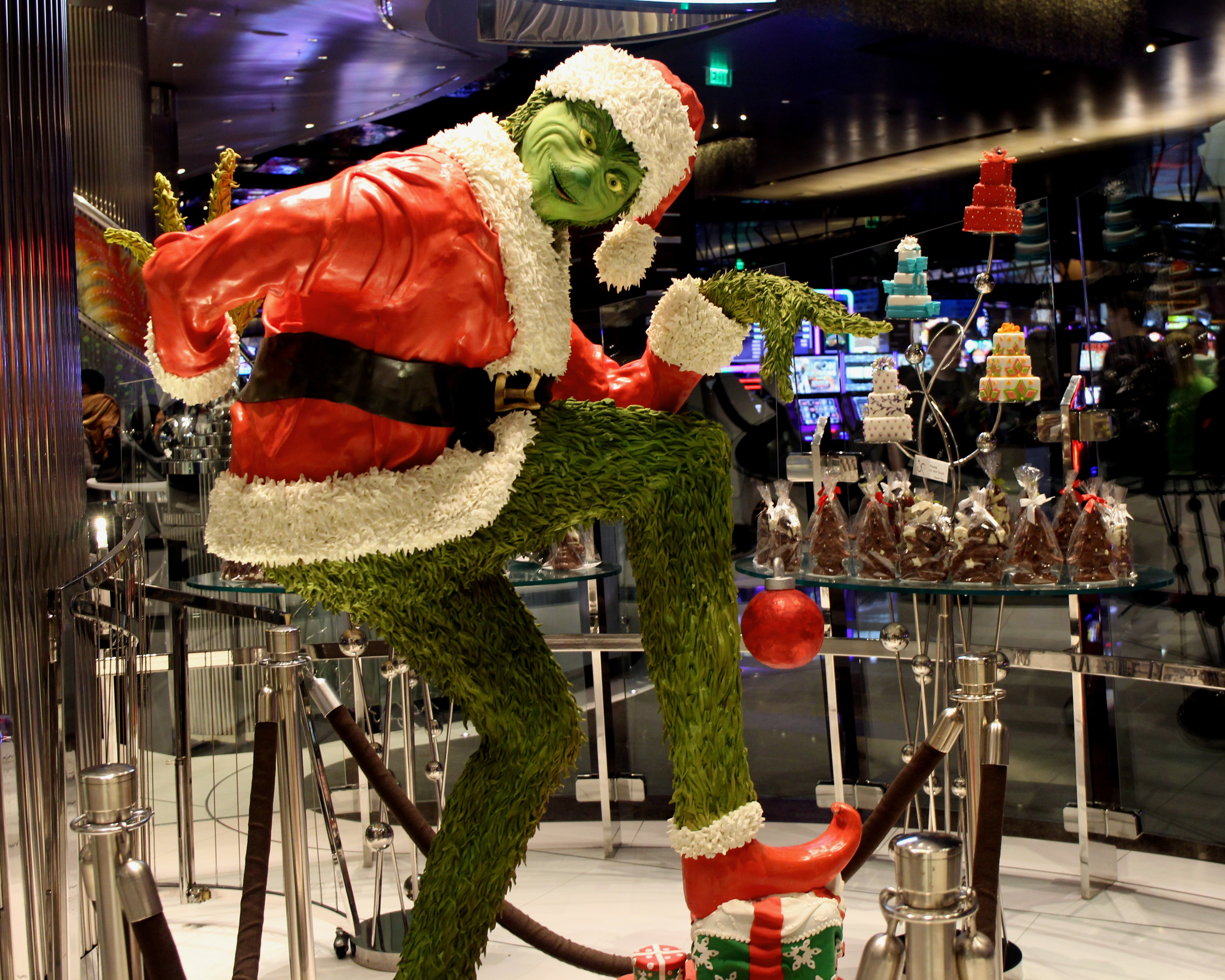 ARIA Patisserie